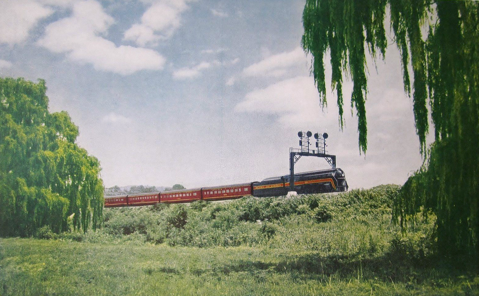 Postcard photo of the Norfolk & Western train the Powhatan Arrow. The train traveled between Norfolk, Virginia and Cincinnati, Ohio.